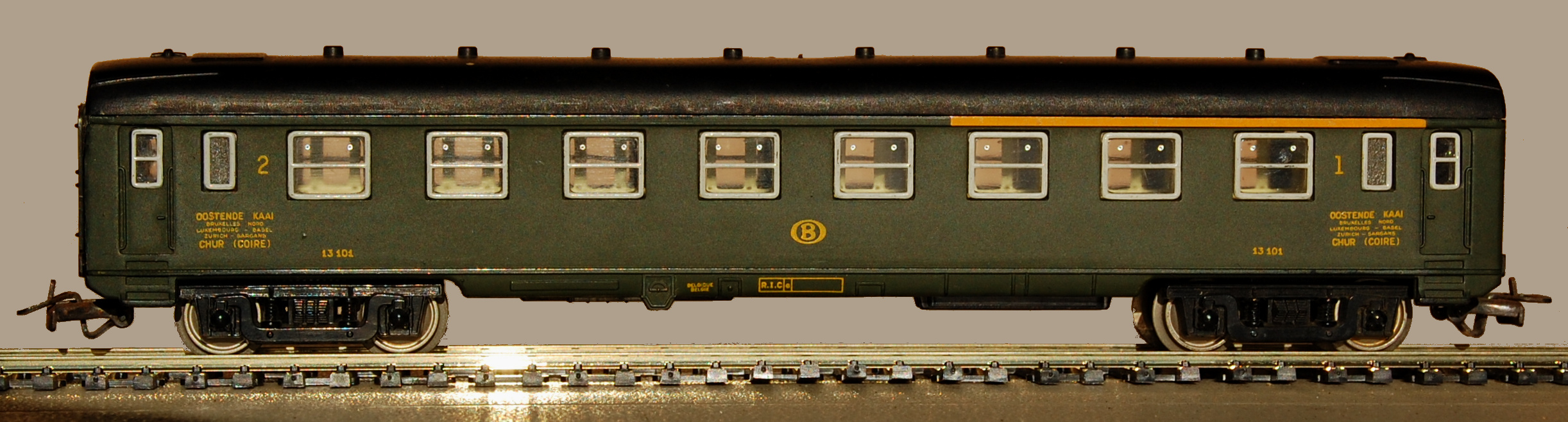 Toy Jouef ref. 461 figuring a couchette car SNCB I3.